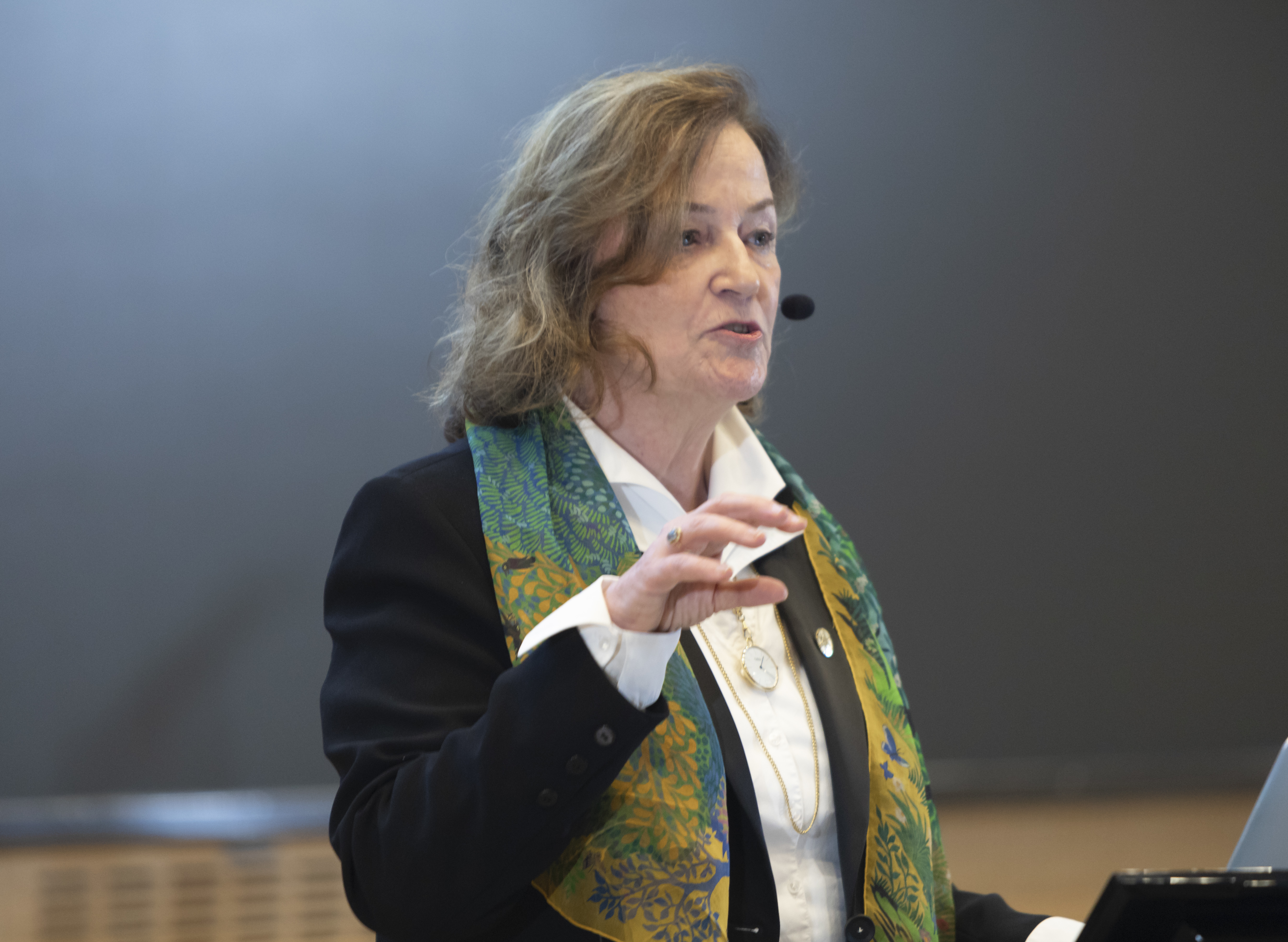 Trondheim 06.09.2018 : The Kavli Prize, Laureate Lectures 2018. Neuroscience prize lecture: Christine Petit. Photo: Thor Nielsen / NTNU